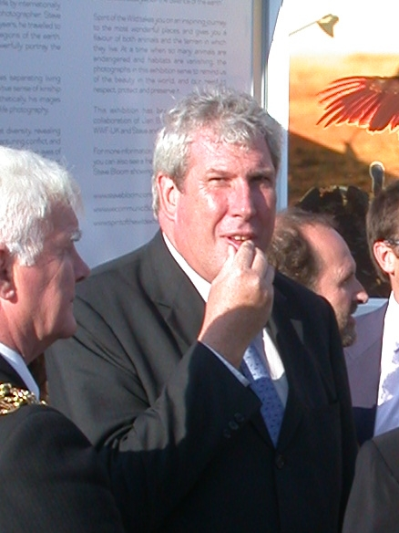 Opening of the Spirit of the Wild exhibition of photographs by Steve Bloom, on Centenary Way, Birmingham, England, on 22 September 2005, in the presence of the then Lord Mayor of Birmingham, John Hood; Deputy Leader of the Council, Paul Tilsley; and the Minister for Environment, Elliot Morley.